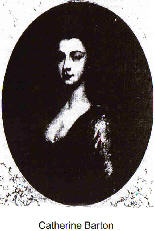 Catherine Barton, Isaac Newton's half-niece